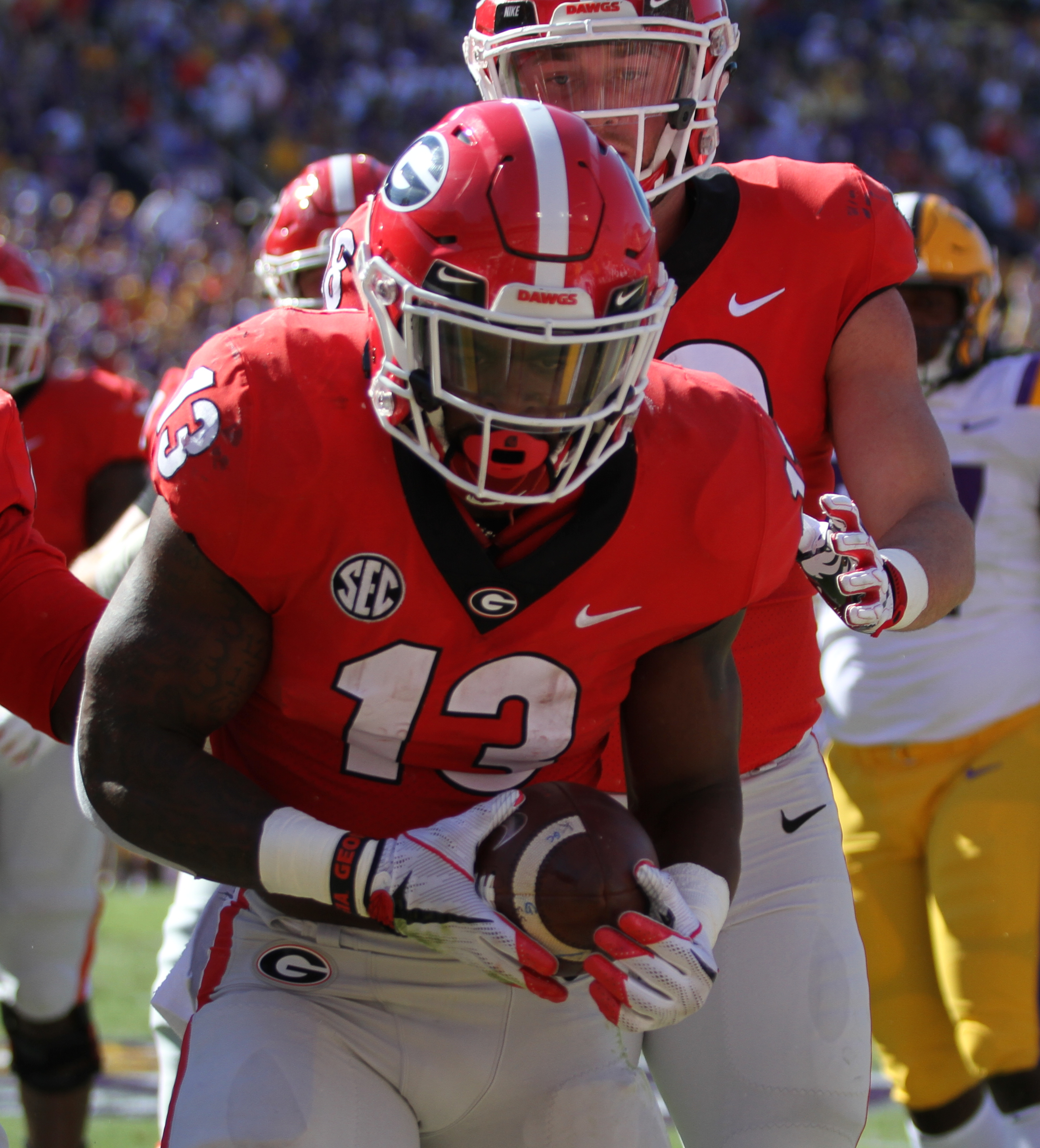 Georgia Bulldogs running back Elijah Holyfield (13), Georgia Bulldogs vs LSU Tigers, Football, Tiger Stadium, October 13, 2018, Baton Rouge, Louisiana, Tammy Anthony Baker, Photographer